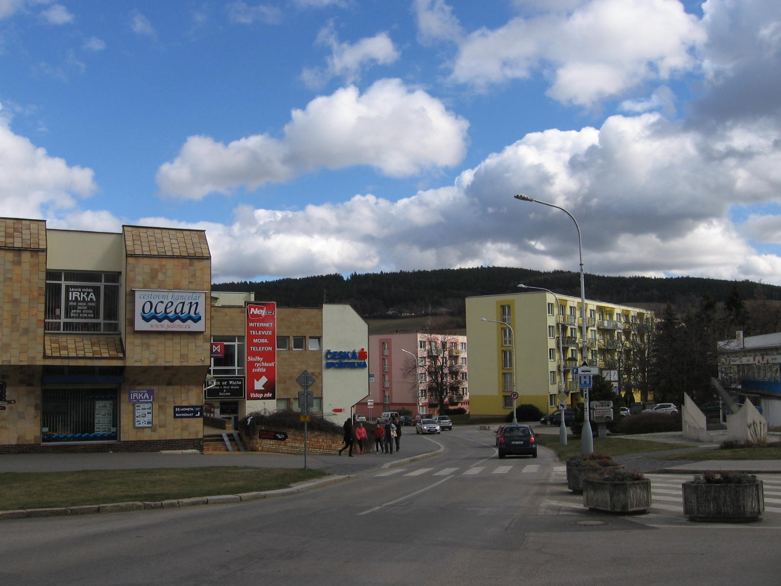 Malé náměstí (Prachatice)